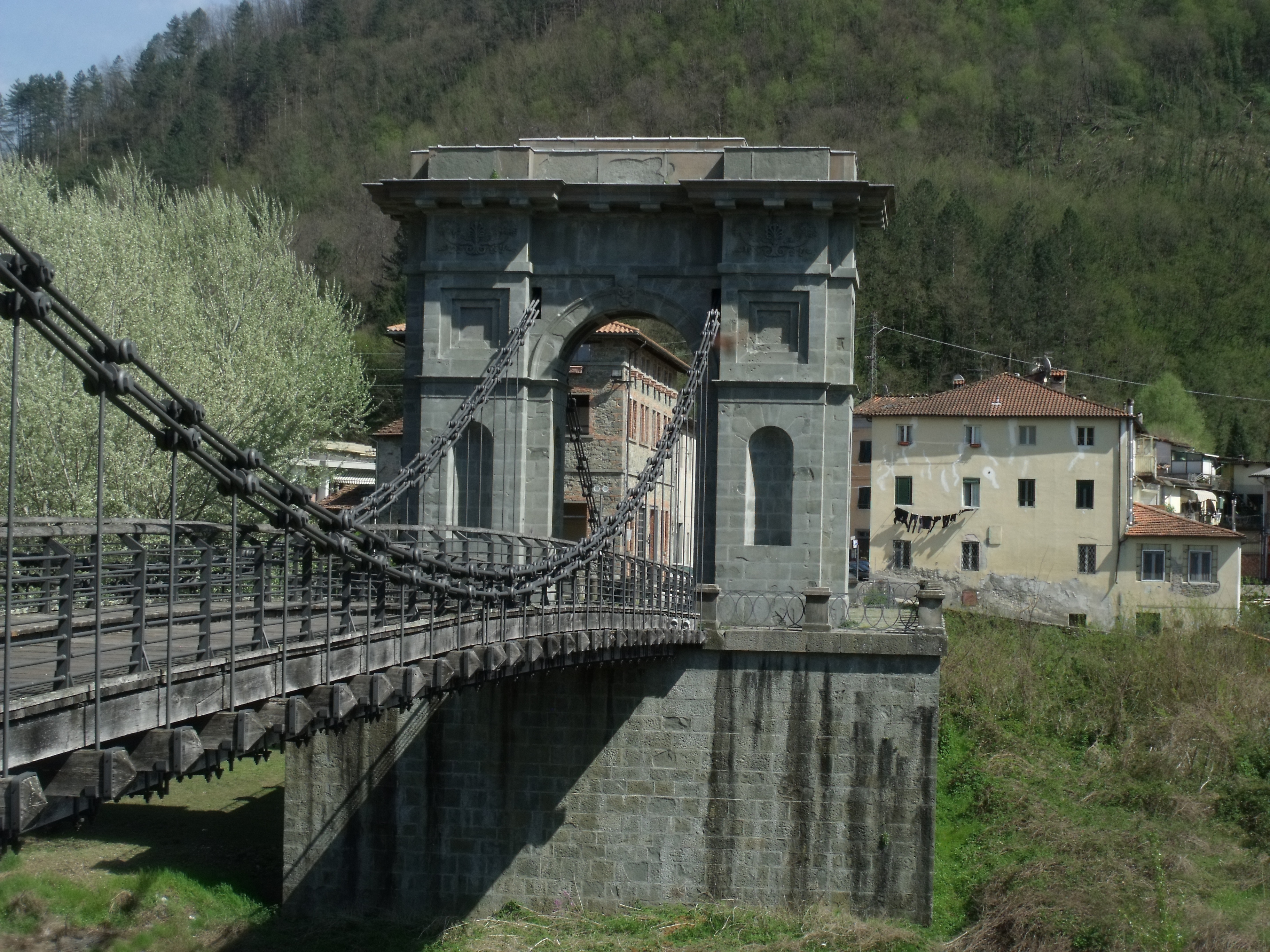 Bridge over the Lima River (Ponte delle Catene) in Bagni di Lucca (here the Gate on the side of Chifenti, hamlet of Borgo a Mozzano), Province of Lucca, Tuscany, Italy